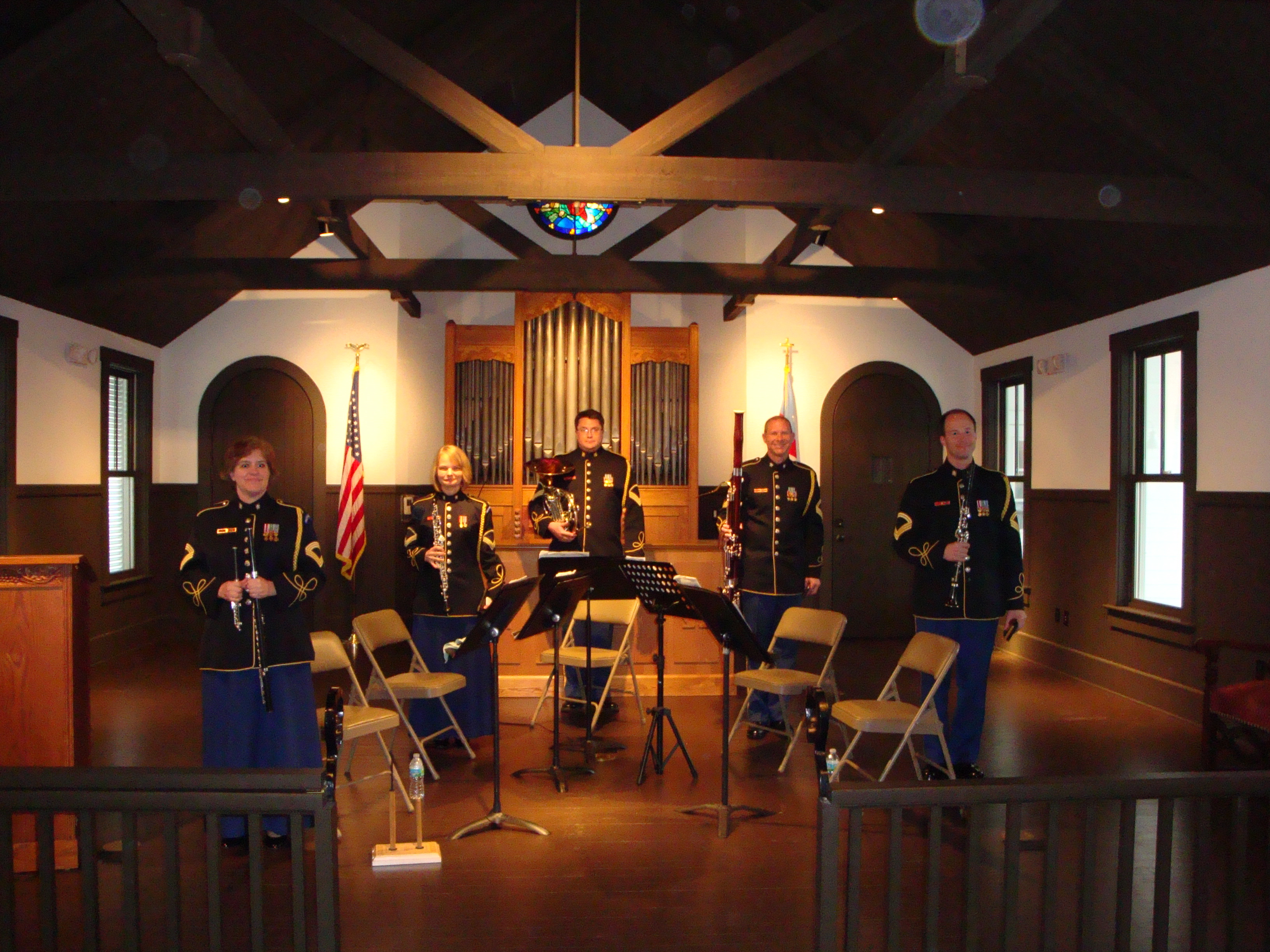 Quintet at St. Andrew's